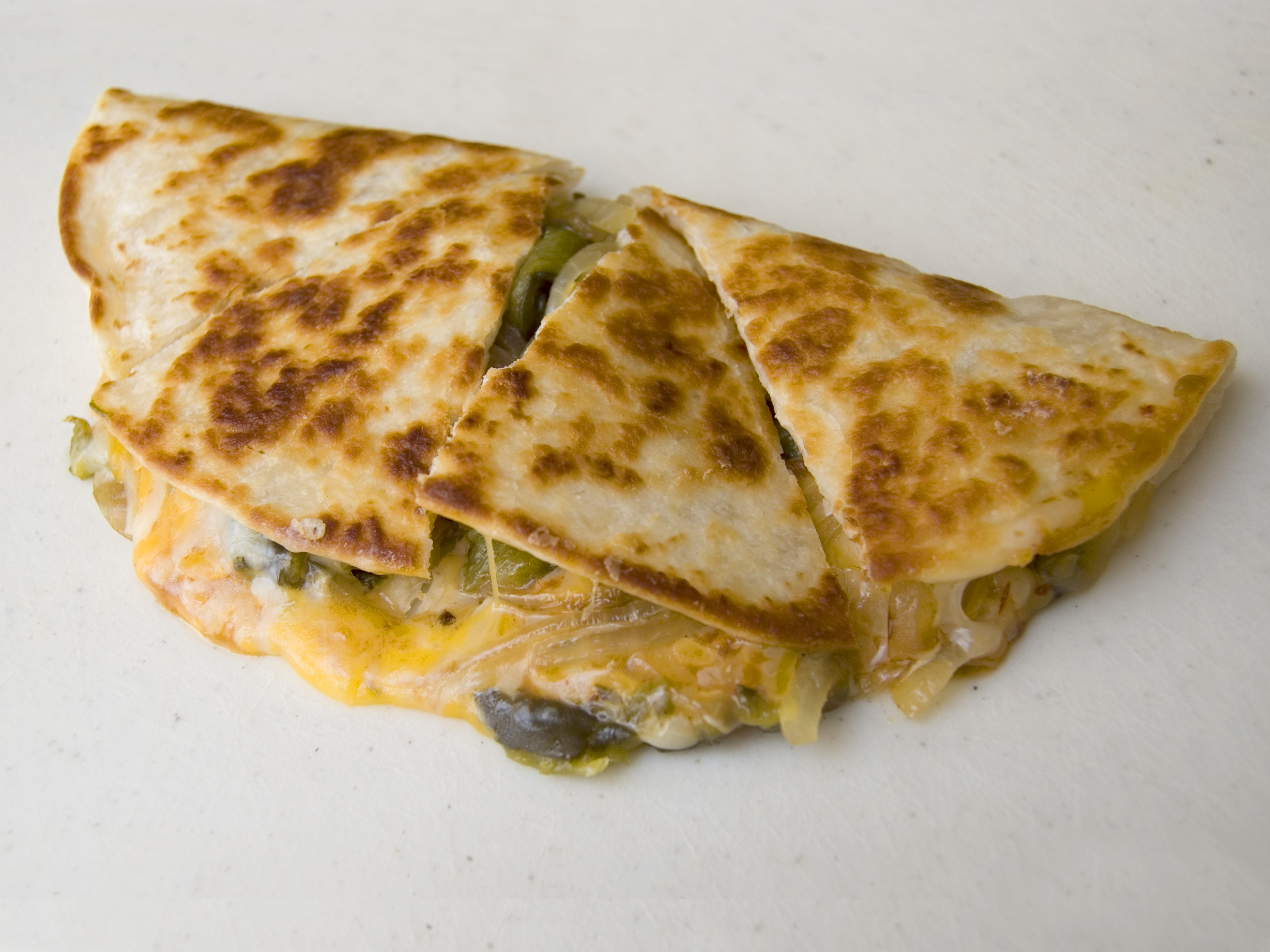 A quesadilla, a tortilla folded over shredded cheese.